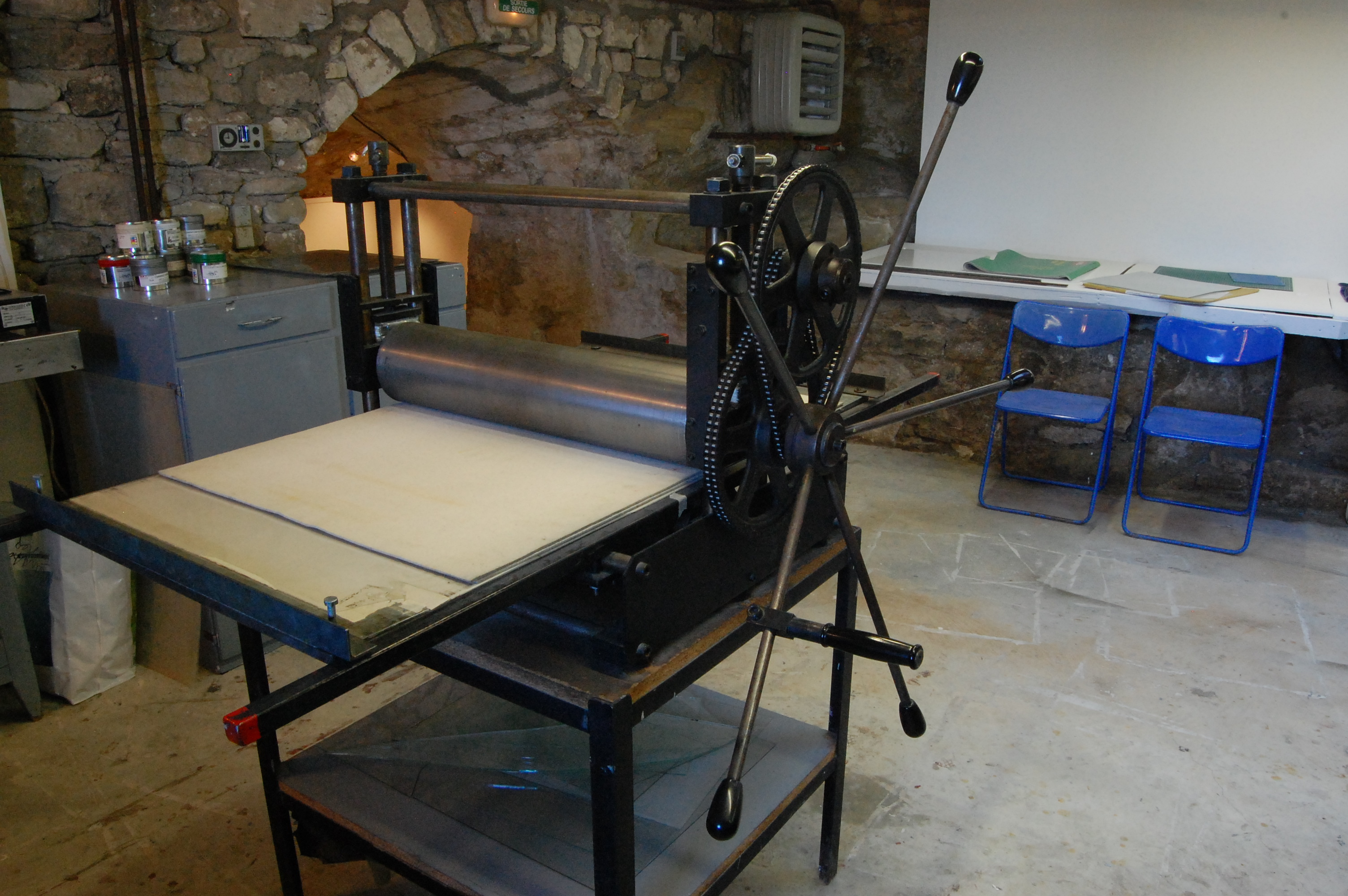 Cylinder press for etching, monotype, and relief printmaking in the Atelier de Gravure at the Savannah College of Art Design's campus in Lacoste, France.